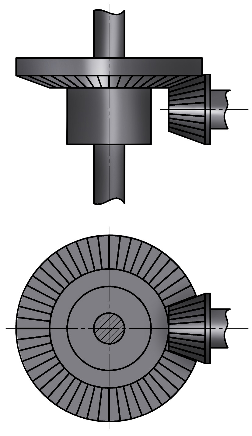 Single final drive (bevel gear)